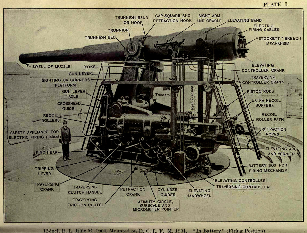 This annotated photo is from "The Service of Coast Artillery," by Frank T. Hines and Franklin W. Ward, Goodenough & Woglom Co., New York, 1910, following p. 112. It shows the 12-inch breech loading rifle, Model 1900 on a 1901 disappearing carriage. This 12-inch gun was one of the heaviest weapons that was widely employed in the U.S. Coast Artillery Corps. A companion weapon, the Model 1895 on a Model 1897 disappearing carriage was slightly lighter weight, but worked similarly. This image shows the gun with its barrel raised above the top of the parapet, ready to fire. After firing, the recoil from the blast moved the muzzle of the gun backwards and and downward, bringing the breech down near the loading platform, where the gun's crew could easily swab it out and load another shell. While in this retracted position, the gun was protected by the parapet and could not be seen from seaward. A deep pit beneath the gun held a sort of platform that was piled high with lead weights that together made up a counterweight. The recoil of the gun raised this counterweight. When a "tripping lever" was thrown, the counterweight fell, raising the gun into firing position. If the gun needed to be retracted without being fired, this was accomplished by the gun crew turning cranks on either side of the carriage and manually retracting it. The round counterweight pits for these guns (surrounded by semicircular steps that rise up to the loading platform) are visible today at many sites in the U.S. from which the guns have been removed.